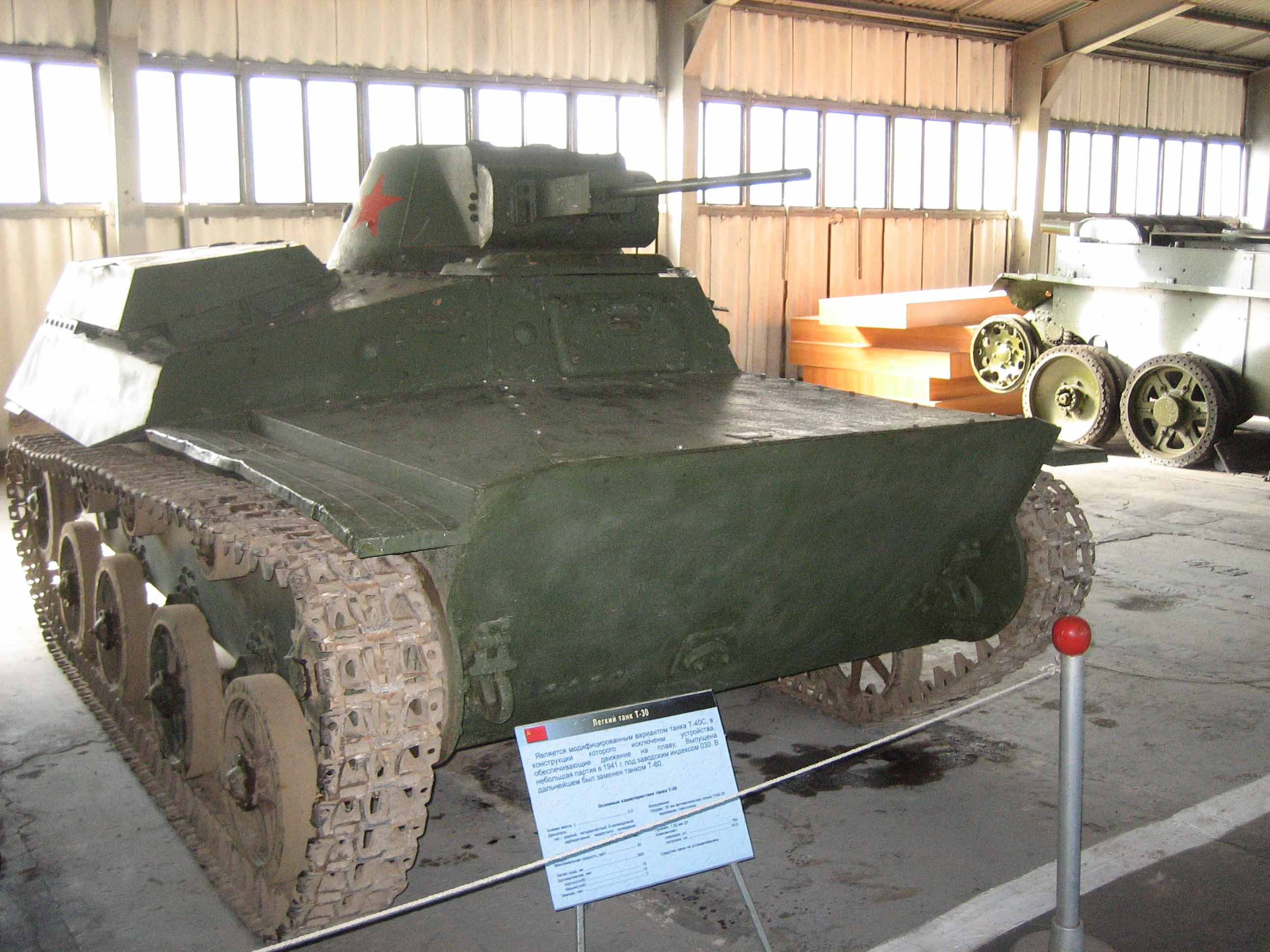 Soviet light infantry tank T-30, displayed in Kubinka Tank Museum. Photo taken on September 23, 2006. Source: Photo by me, User:Saiga20K.